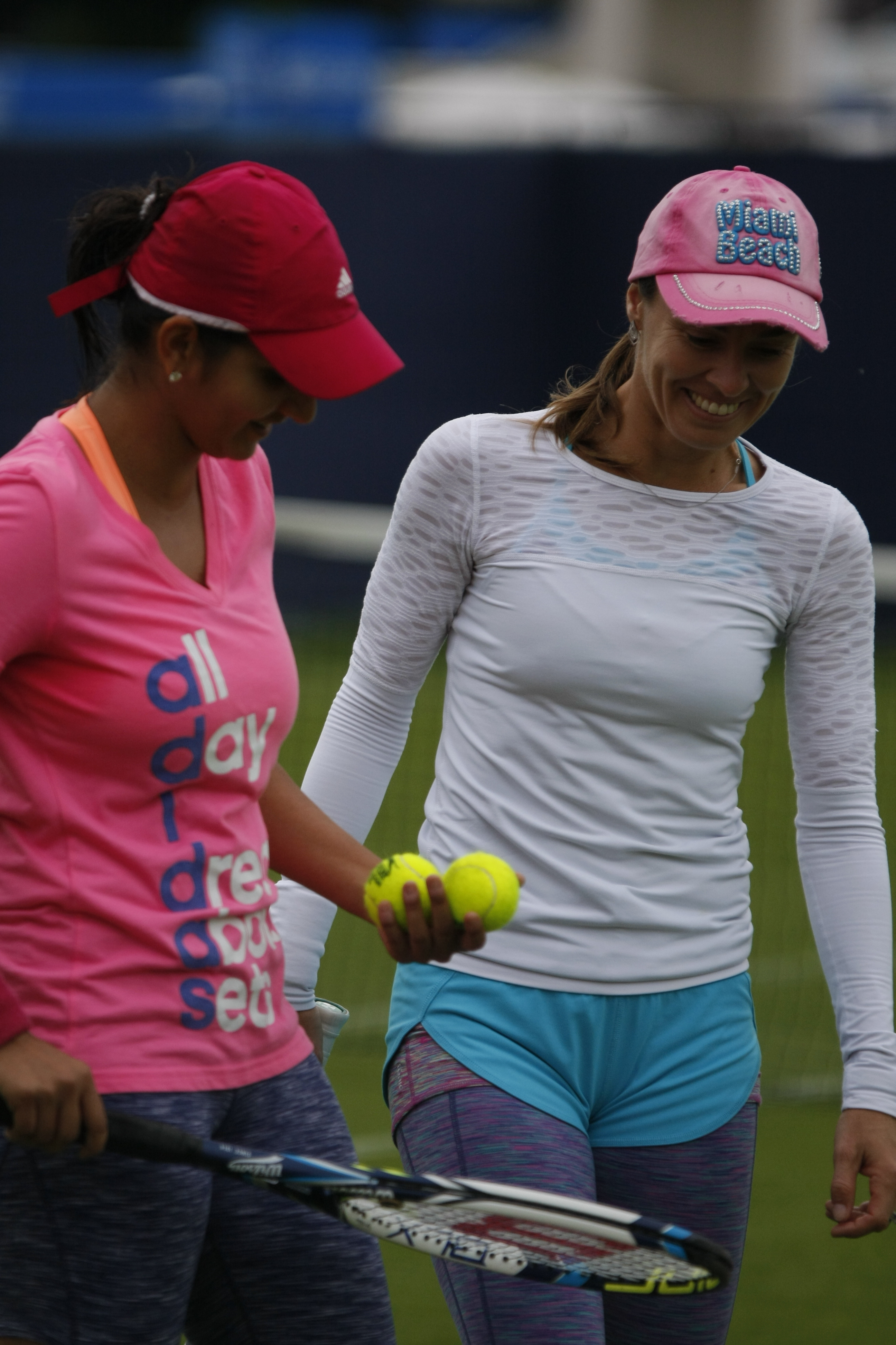 Aegon International Tennis, Devonshire Park, Eastbourne June 2015